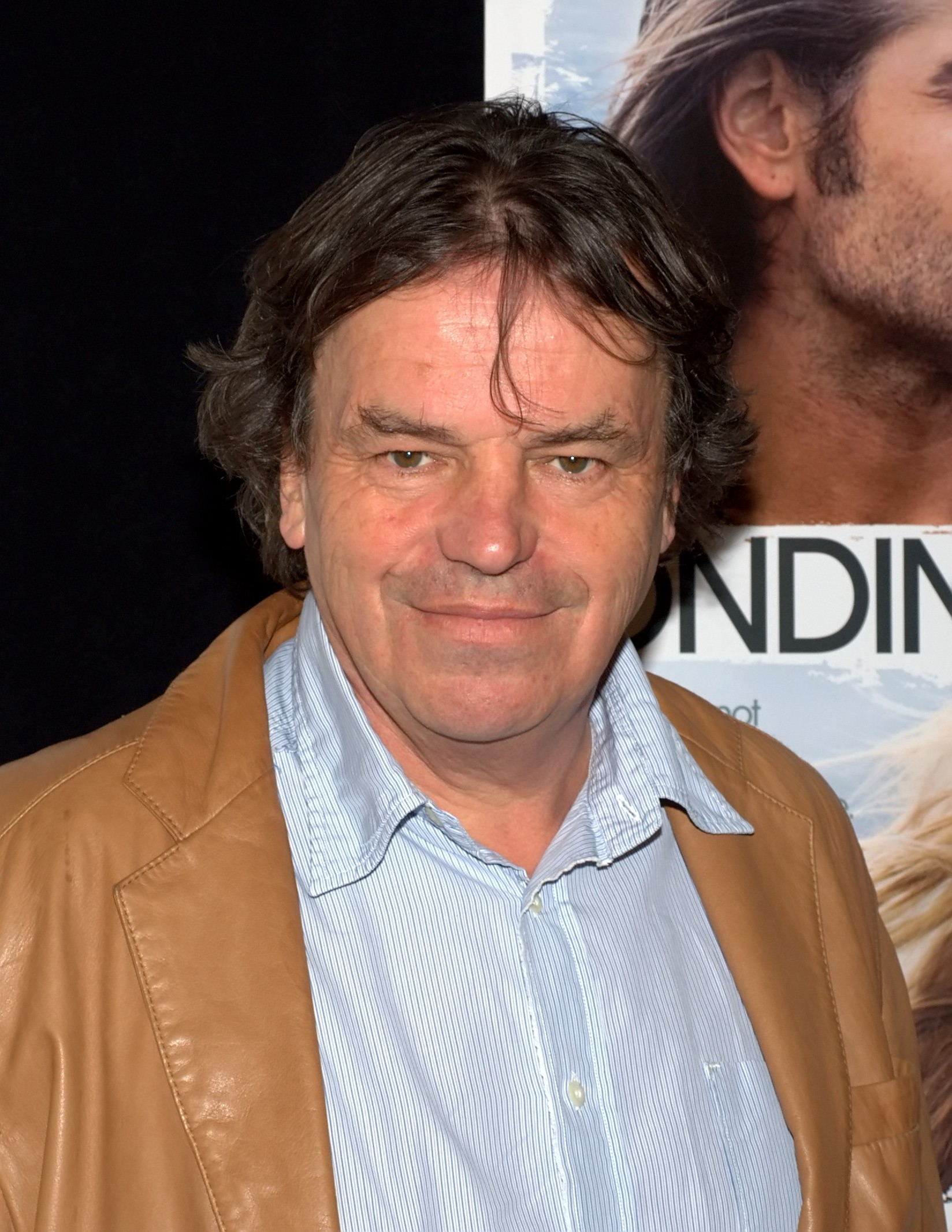 Neil Jordan at the premiere of Ondine at the 2010 Tribeca Film Festival